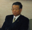 Conrad C. Lautenbacher, Administrator of the National Oceanic and Atmospheric Administration, and Scott Rayder, Chief of Staff of the National Oceanic and Atmospheric Administration, talked with Takashi Aoyama, Senior Vice Minister of Education, Culture, Sports, Science and Technology, at the Ministry of Education, Culture, Sports, Science and Technology in Chiyoda Ward, Tōkyō Metropolis in 2002.